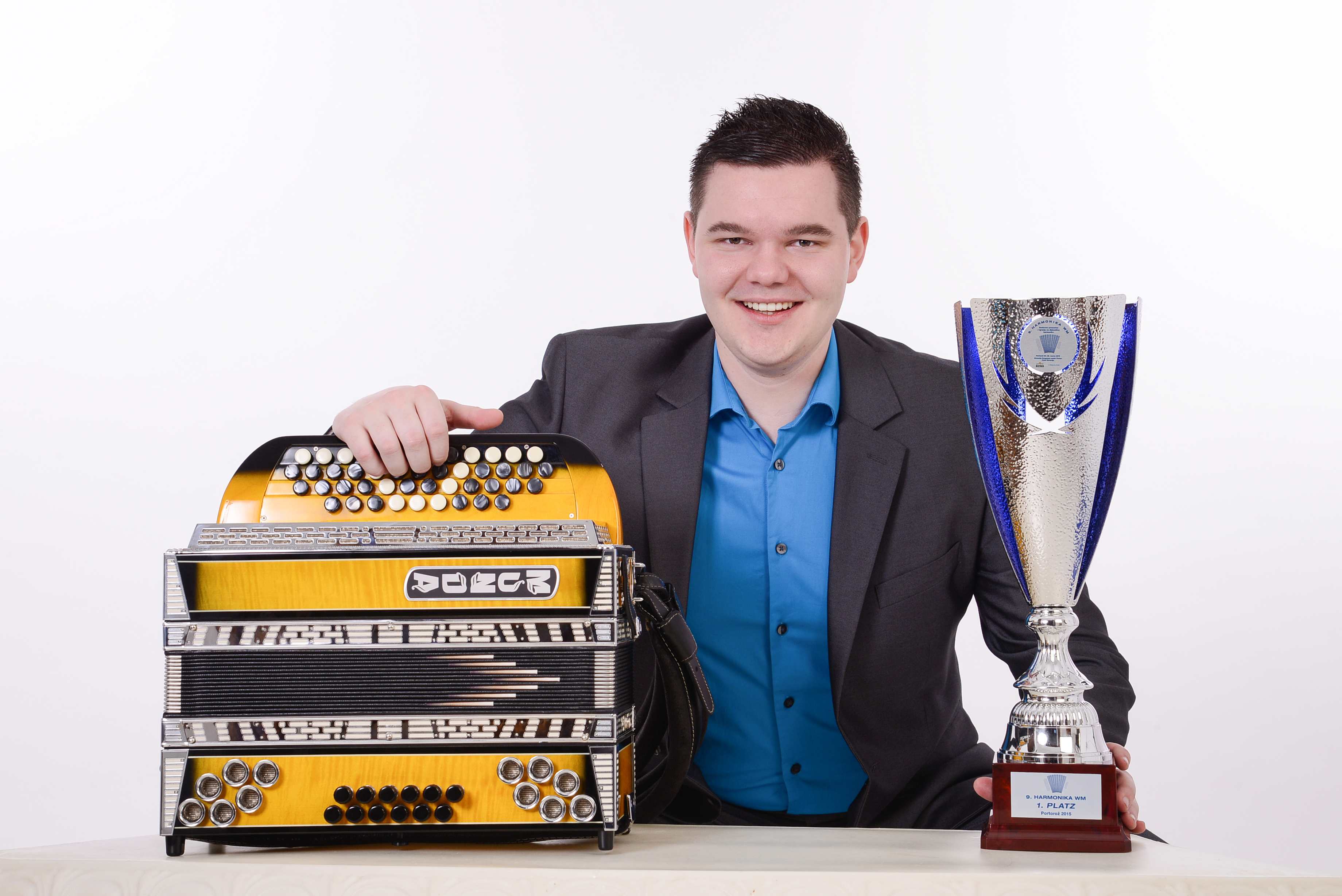 Nejc Pačnik accordion worldchampion 2015